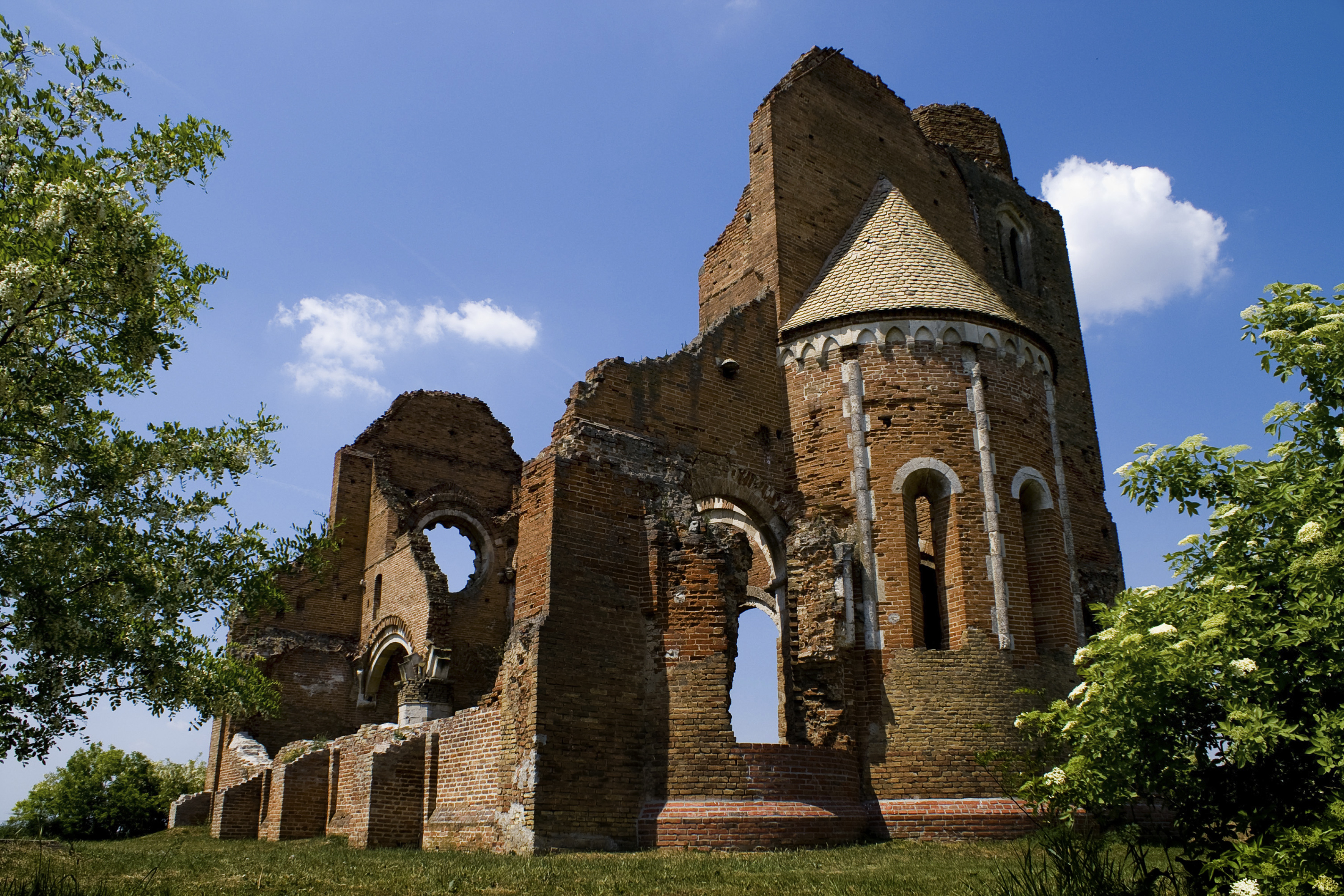 Ruins of the medieval Catholic church of Arač (Aracs) near Novi Bečej, 13th century.